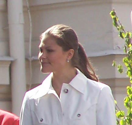 Crown princess Victoria of Sweden at the Swedish National Day 2006 (2006-06-06).